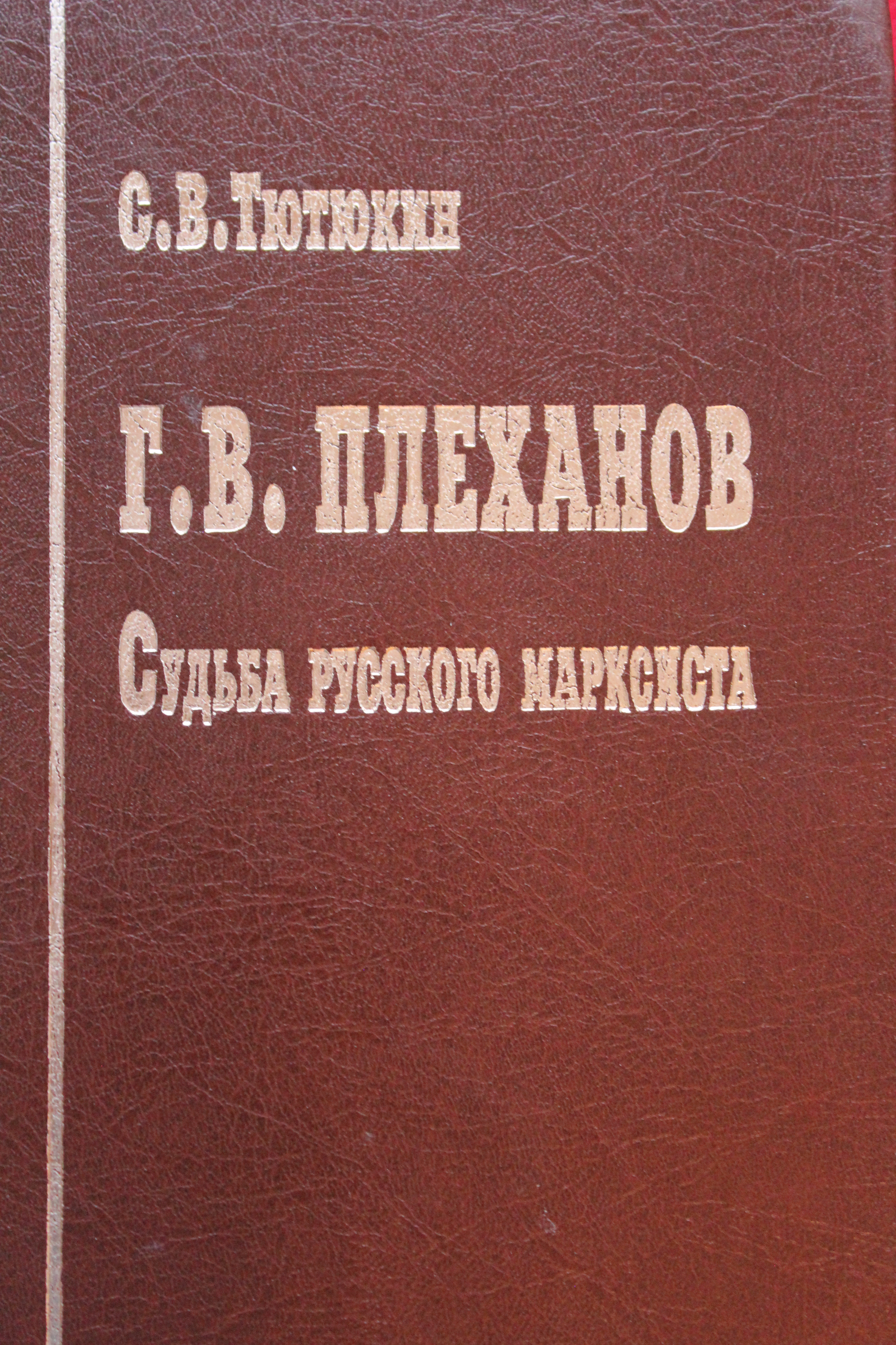 Монография